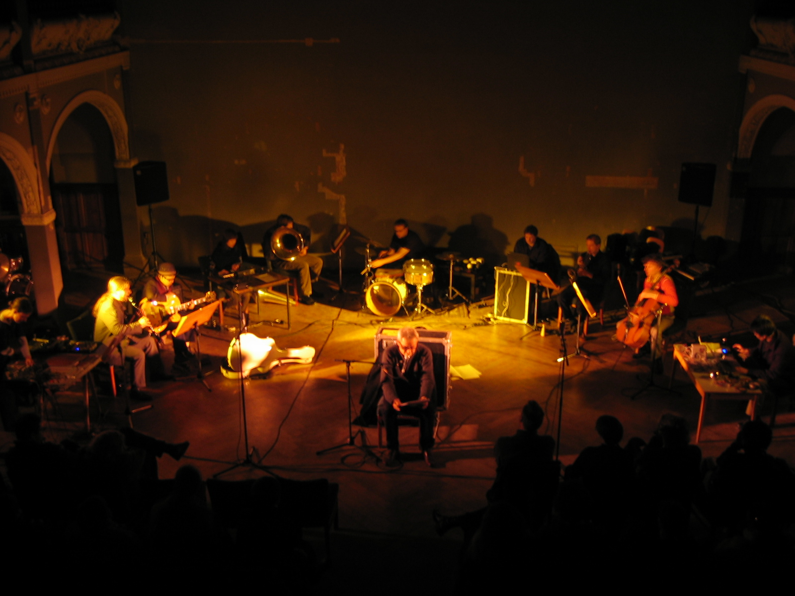 Live Performance of Otomo Yoshihide's "miira ni narumade" in Berlin on Feb 27 2004 during the Uchiage Festival. Photo by Dieter Kovacic